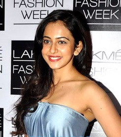 Rakul Preet Singh at Lakme Fashion Week 2014